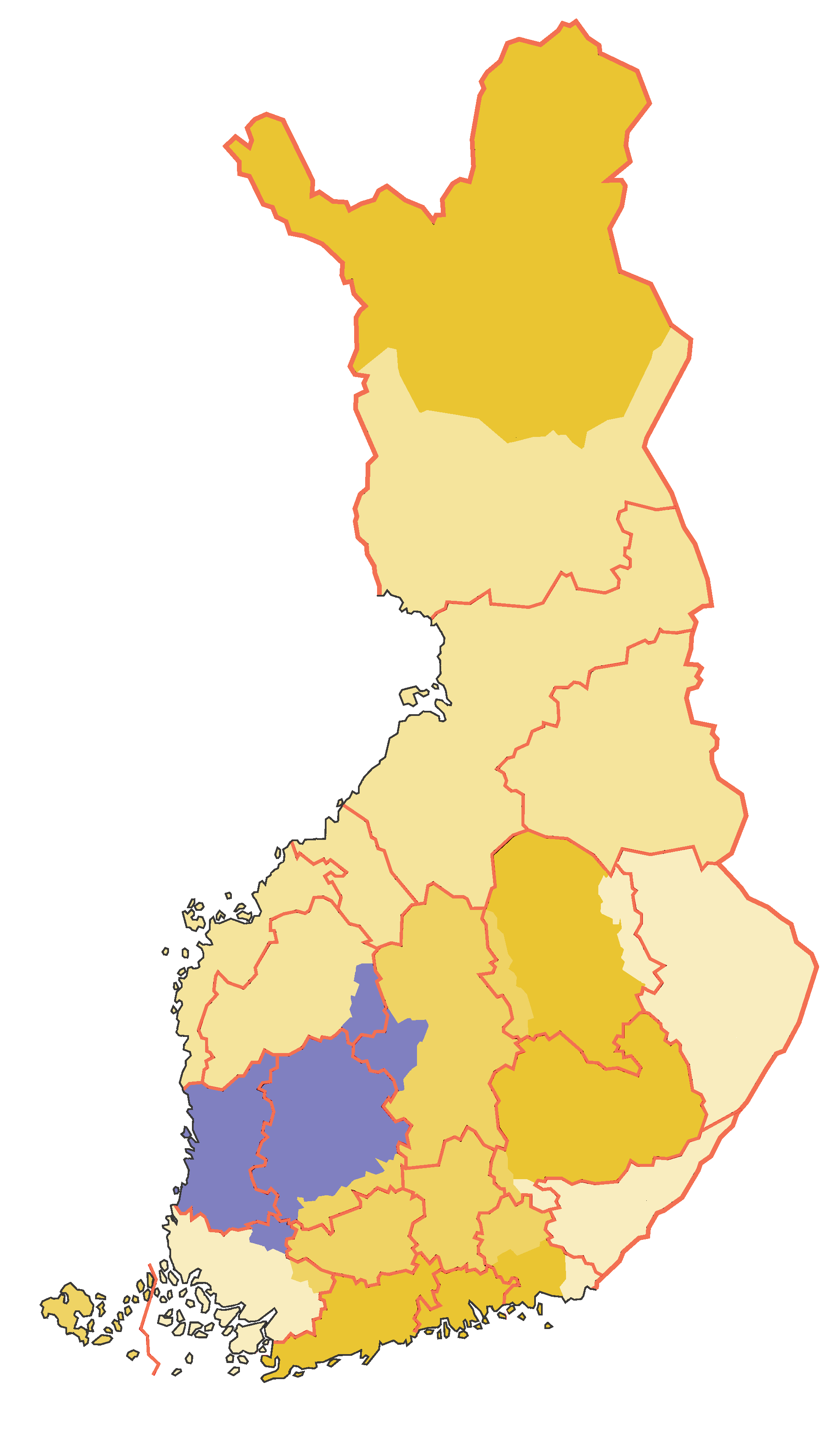 Historical province of Satakunta in Finland